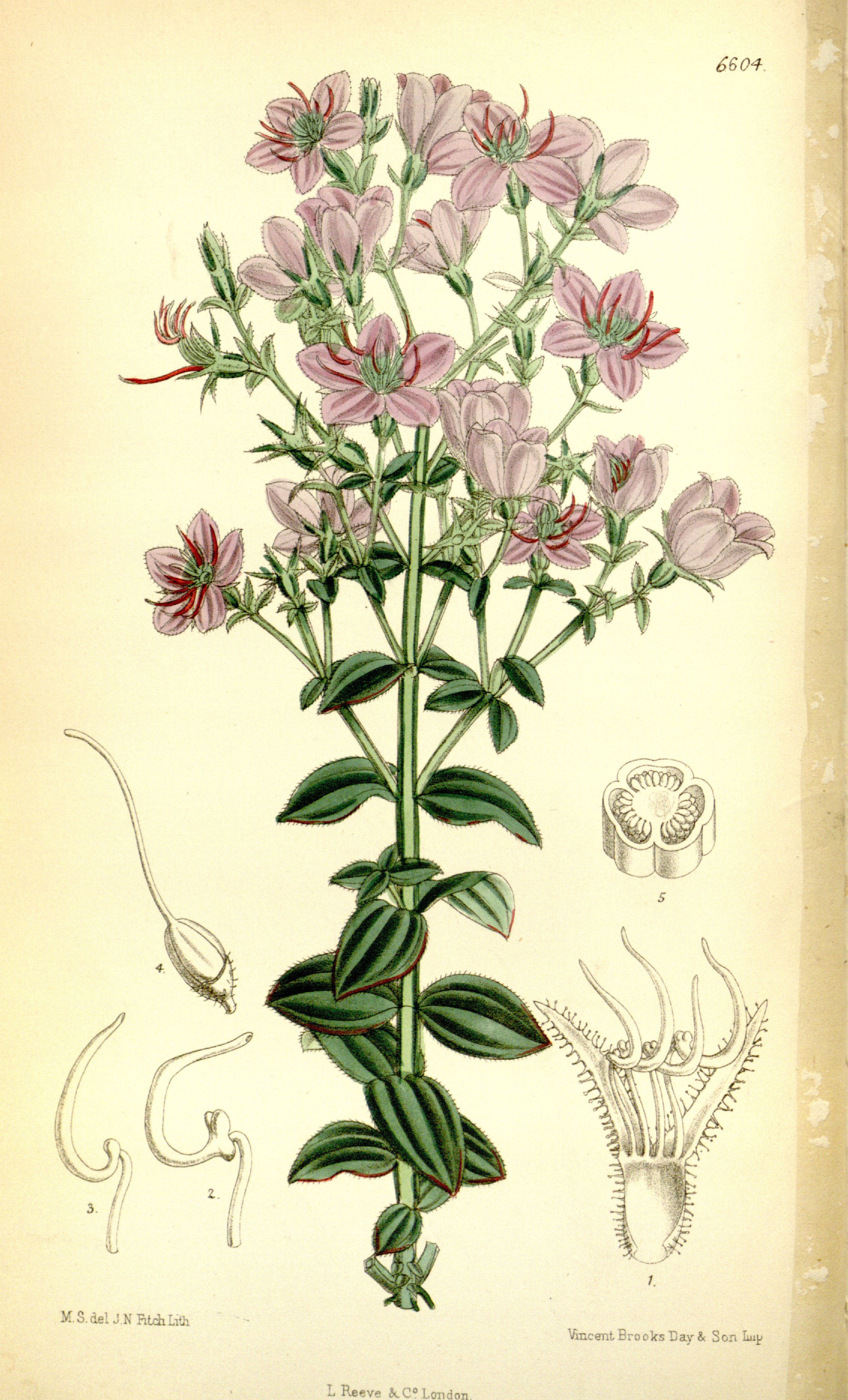 Cambessedesia paraguayensis (= Acisanthera paraguayensis), Melastomataceae